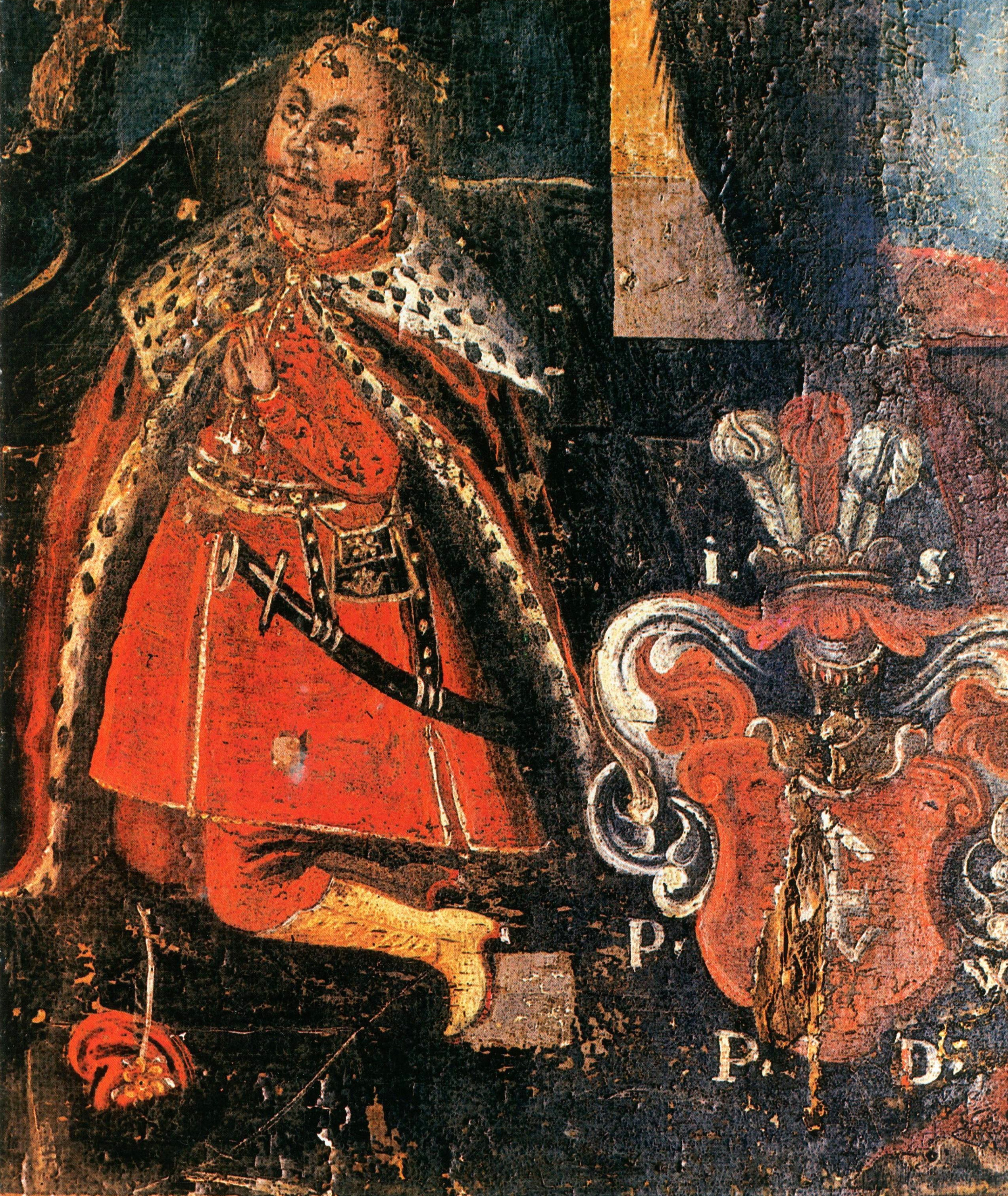 THE ADORATION OF THE MAGI. About 1514. Wood, tempera. 175x102x2,5. St. Paul and Peter's Catholic Church, Dryswiaty, Braslau district, Vitsiebsk region. Restoration - P. Zhurbey.